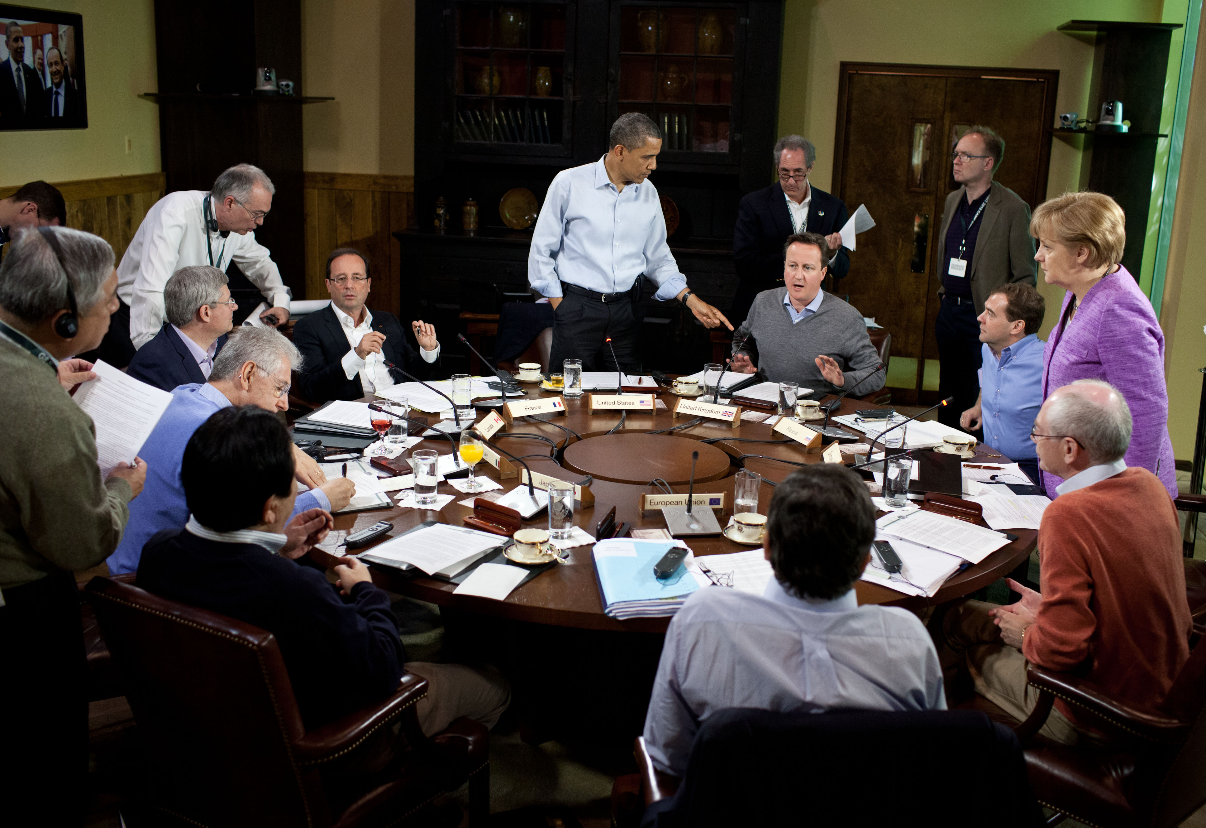 President Barack Obama participates in a G8 Summit working session focused on global and economic issues, in the dining room of Laurel Cabin at Camp David, Md., May 19, 2012.